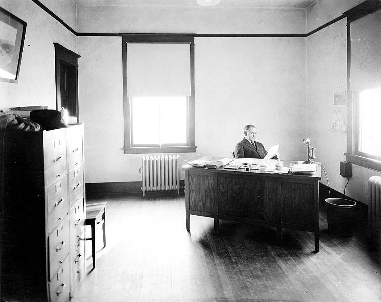 Subjects (LCTGM): Offices--Washington (State)--Seattle; Office furniture Subjects (LCSH): Cobb, John N. (John Nathan), 1868-1930; University of Washington. College of Fisheries